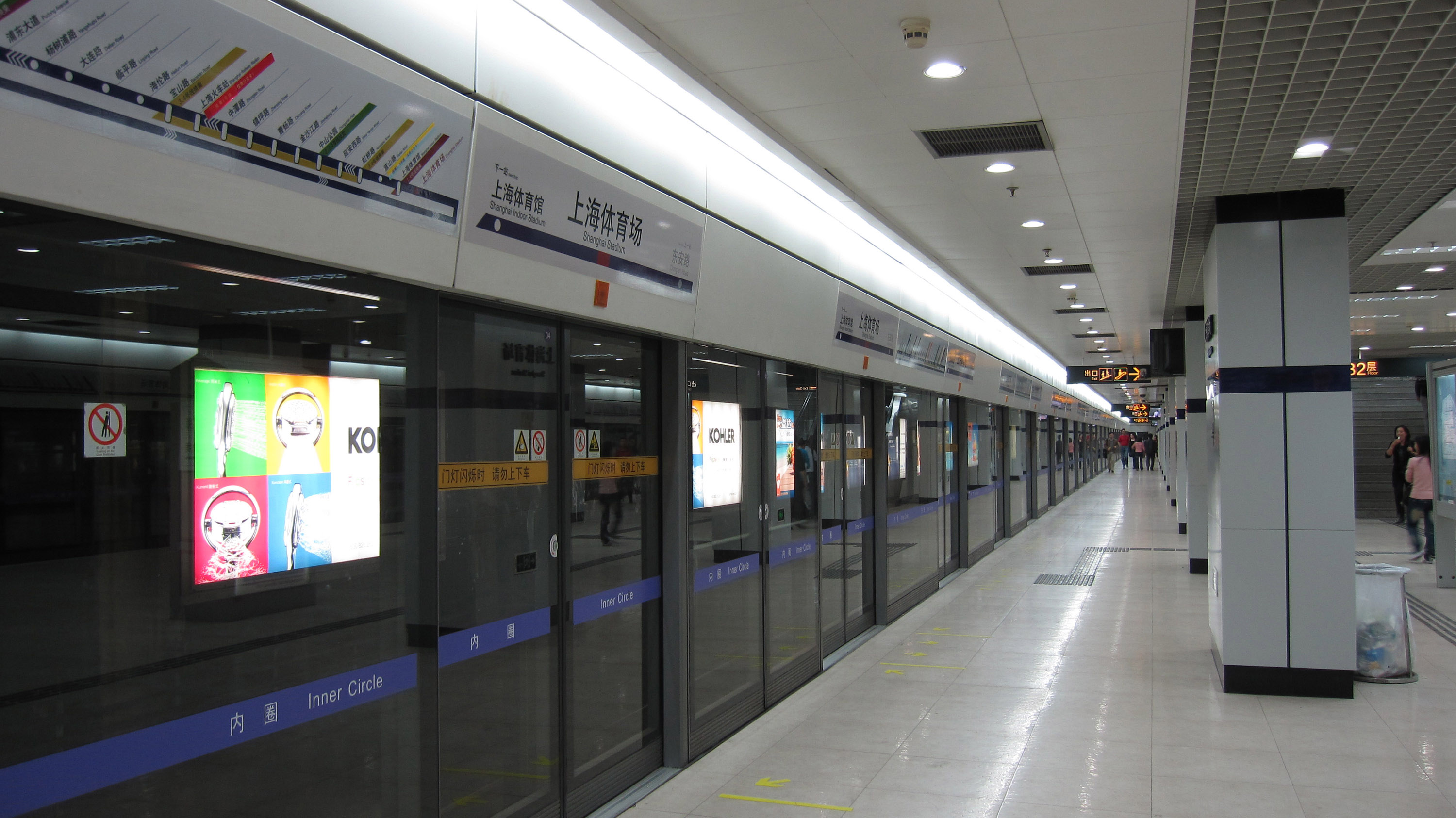 Shanghai Metro Line 4 Shanghai Stadium Station